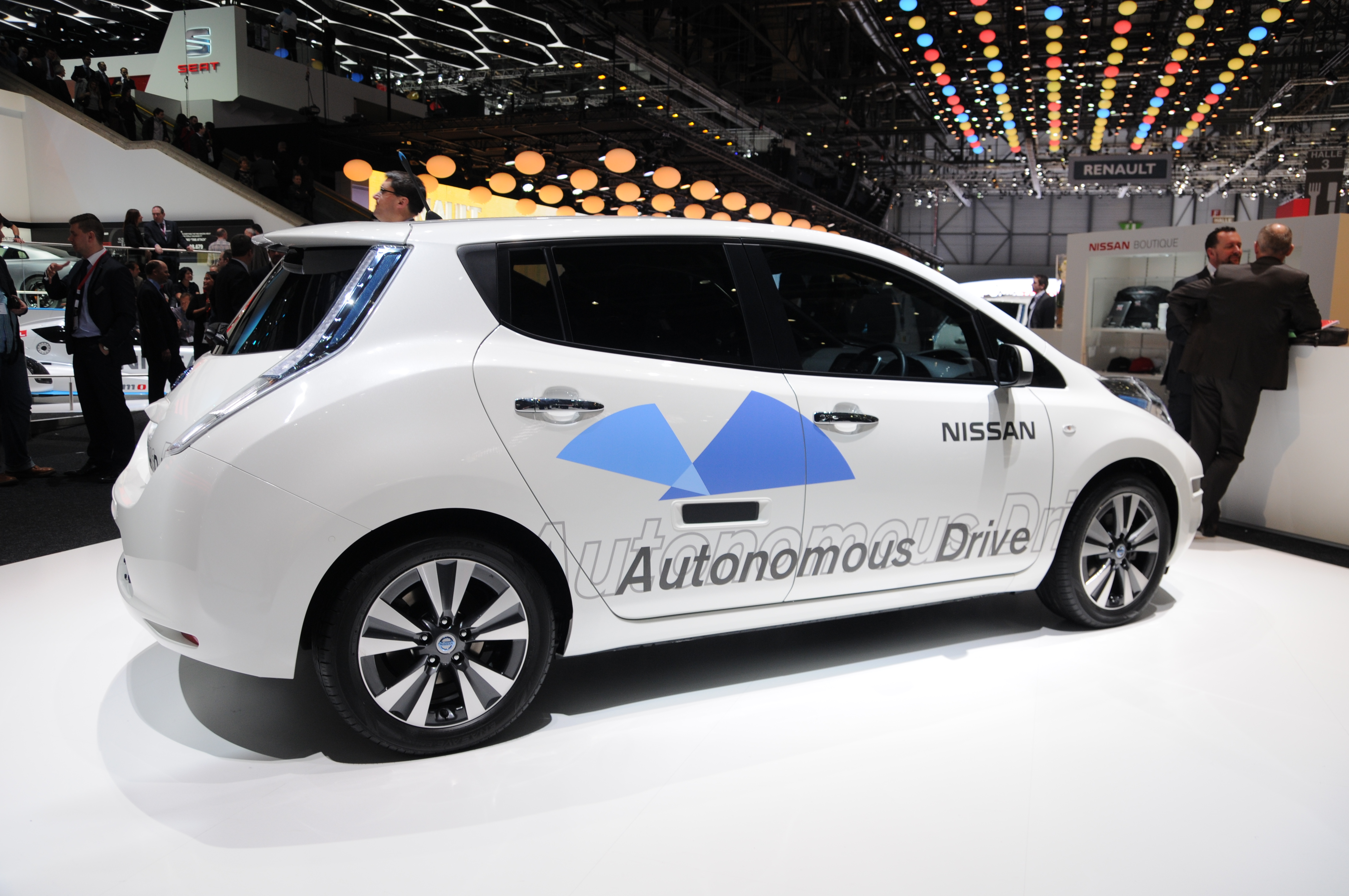 Nissan autonomous car prototype (using a Nissan Leaf electric car) exhibited at the Geneva Motor Show 2014 (photo taken on the first press day)